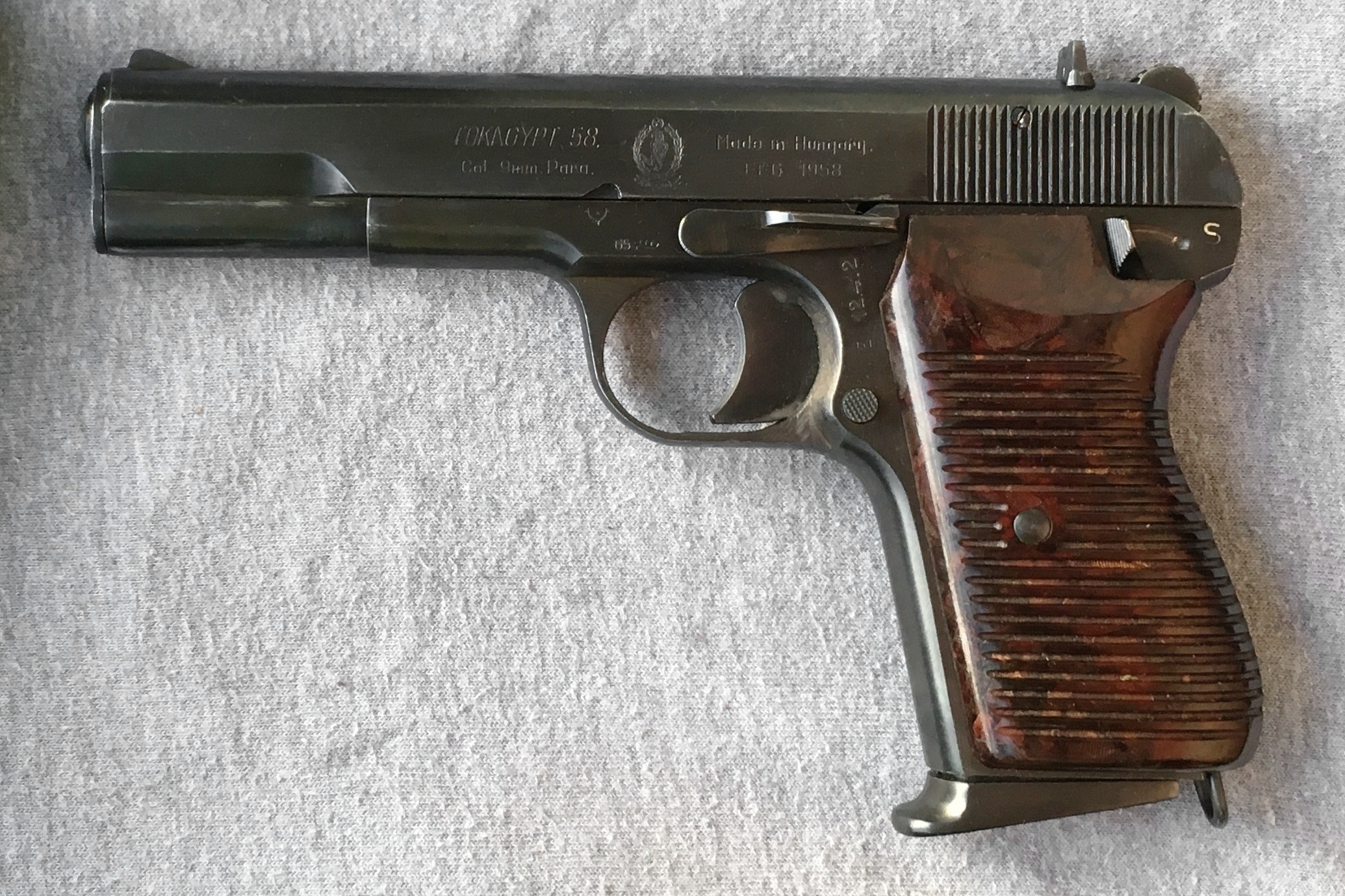 The Hungarian 'Tokaghipt-58' - is a 9 mm variant of the Soviet TT pistol.